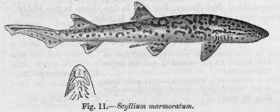 Scyllium marmoratum = Atelomycterus marmoratus ([Bennett], 1830)